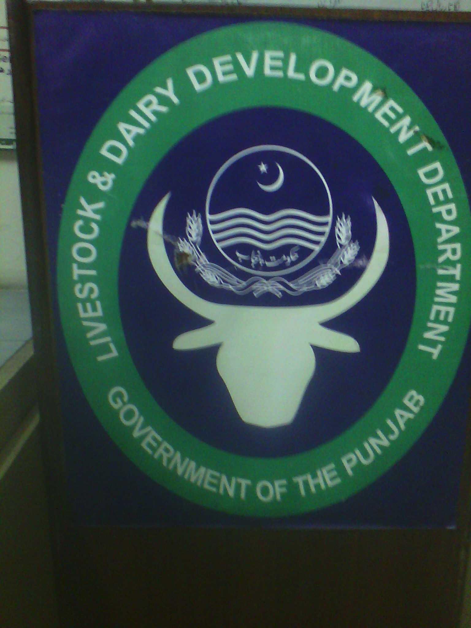 Monogram